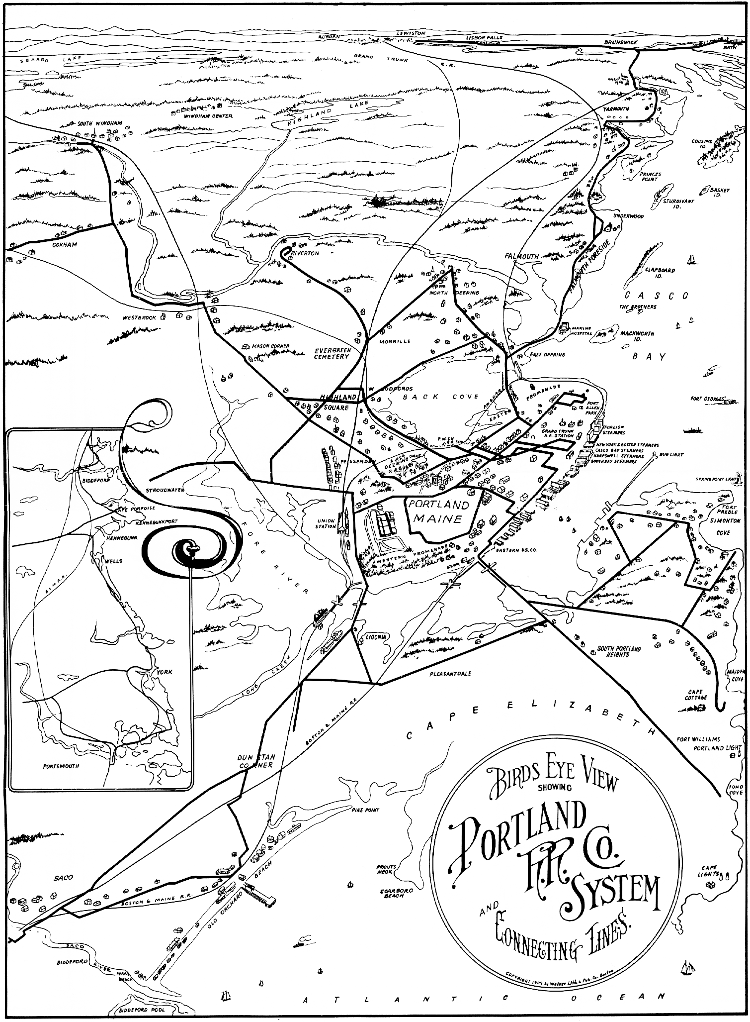 The Routes of the Portland, Maine Rail Roads in an illustration from 1909